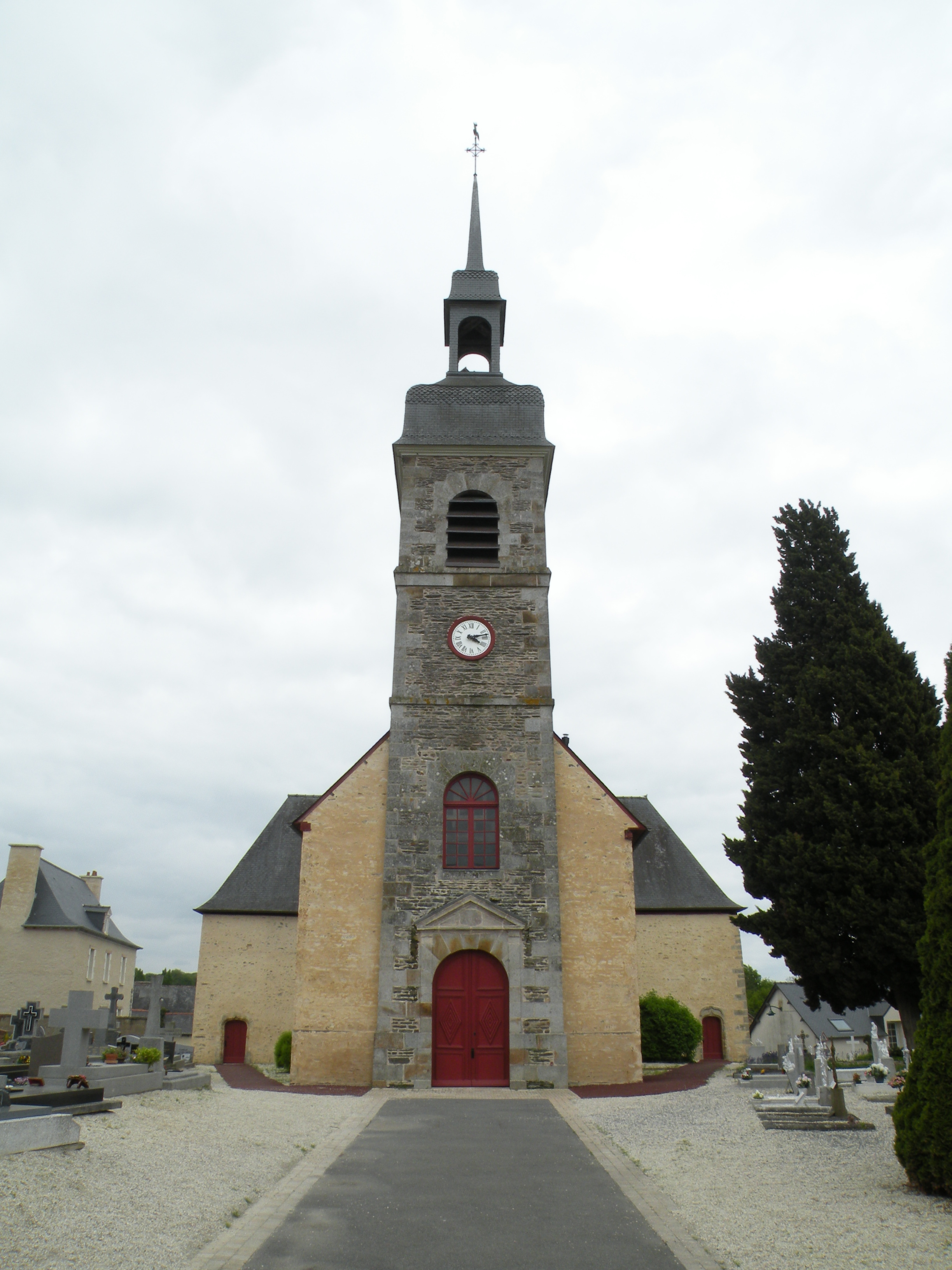 Church of Domloup